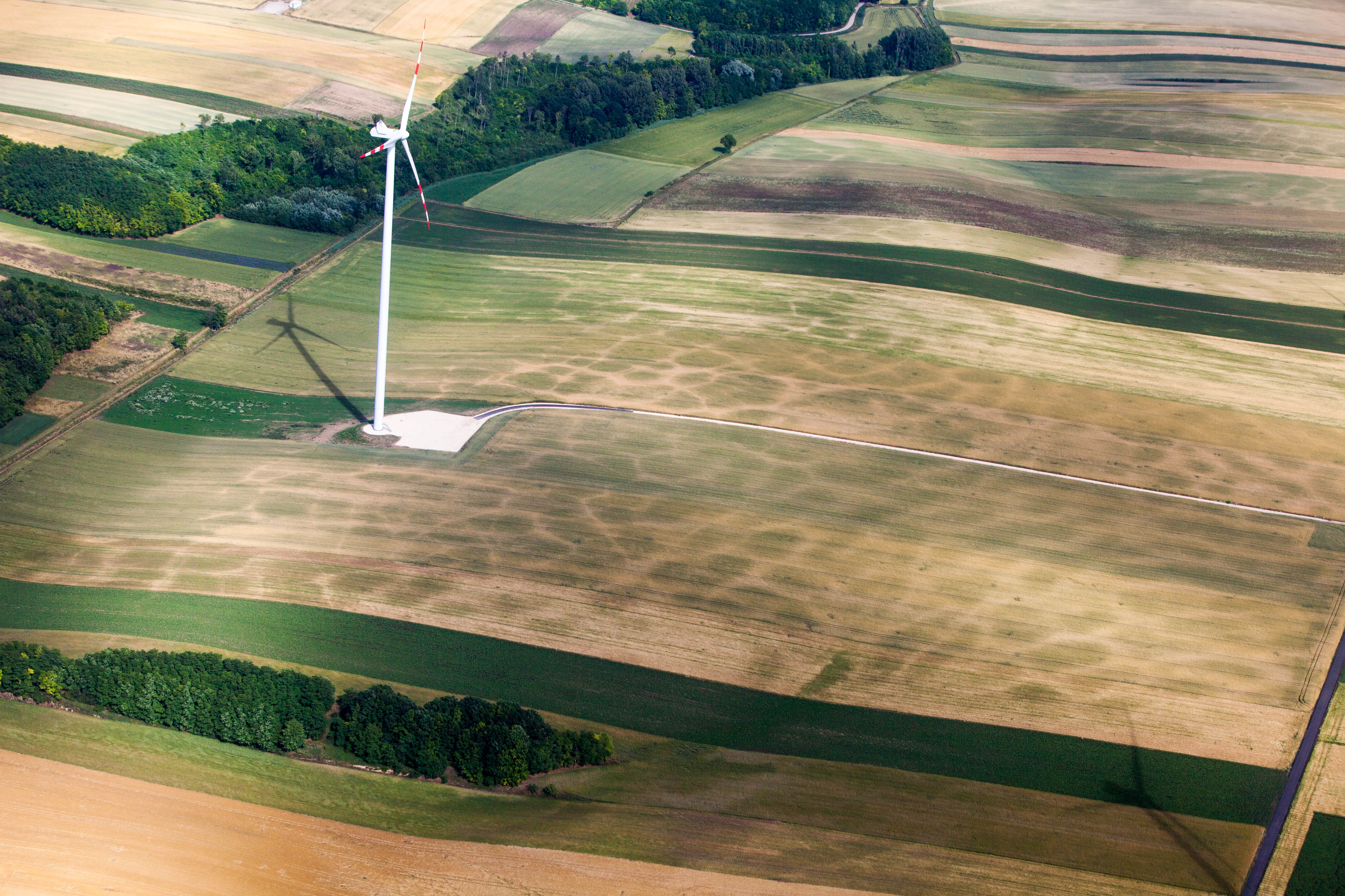 Tiger print field in Austria